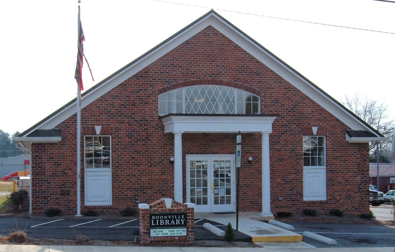 Public library in Boonville, NC, USA